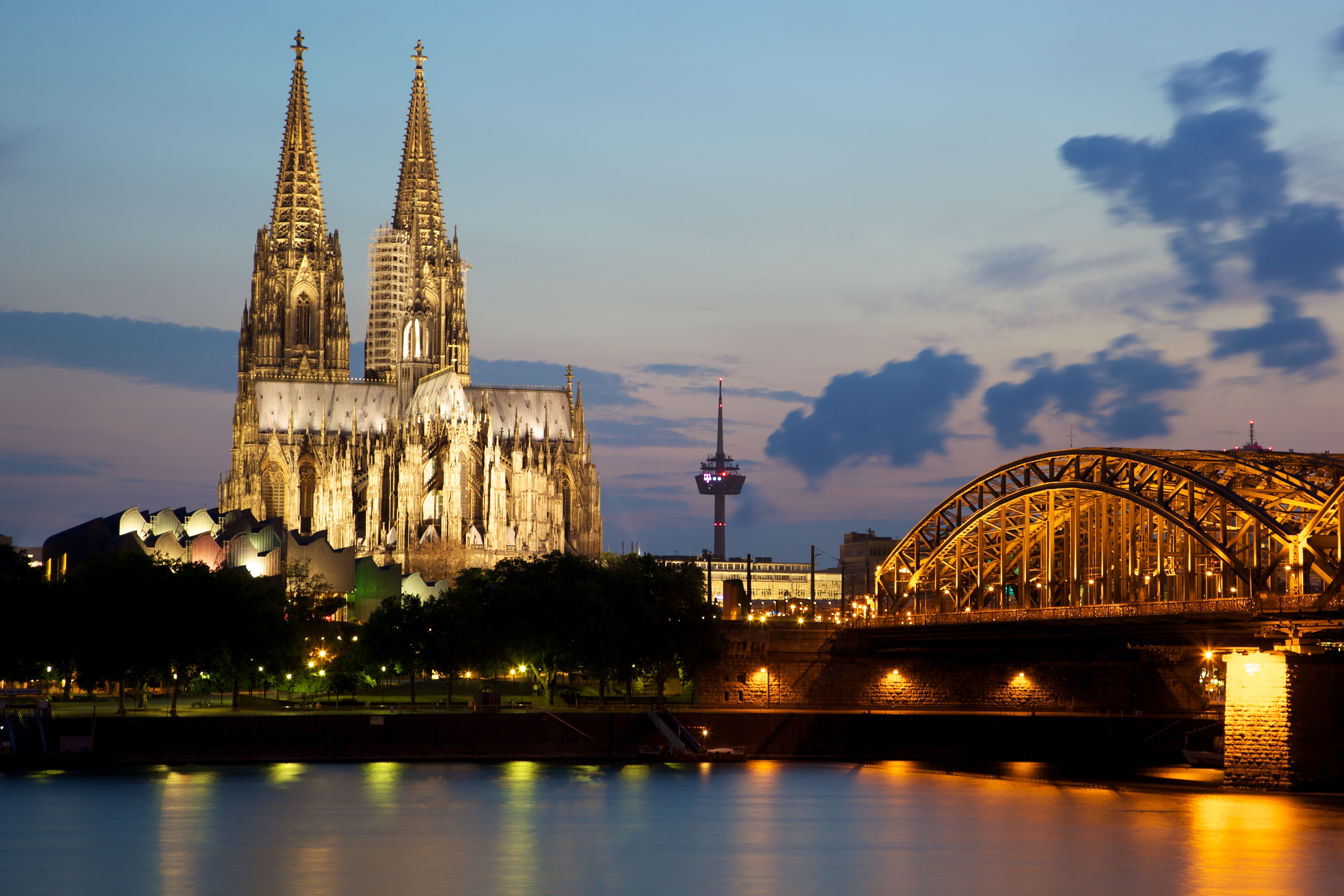 Cologne Cathedral and the Hohenzollern Bridge